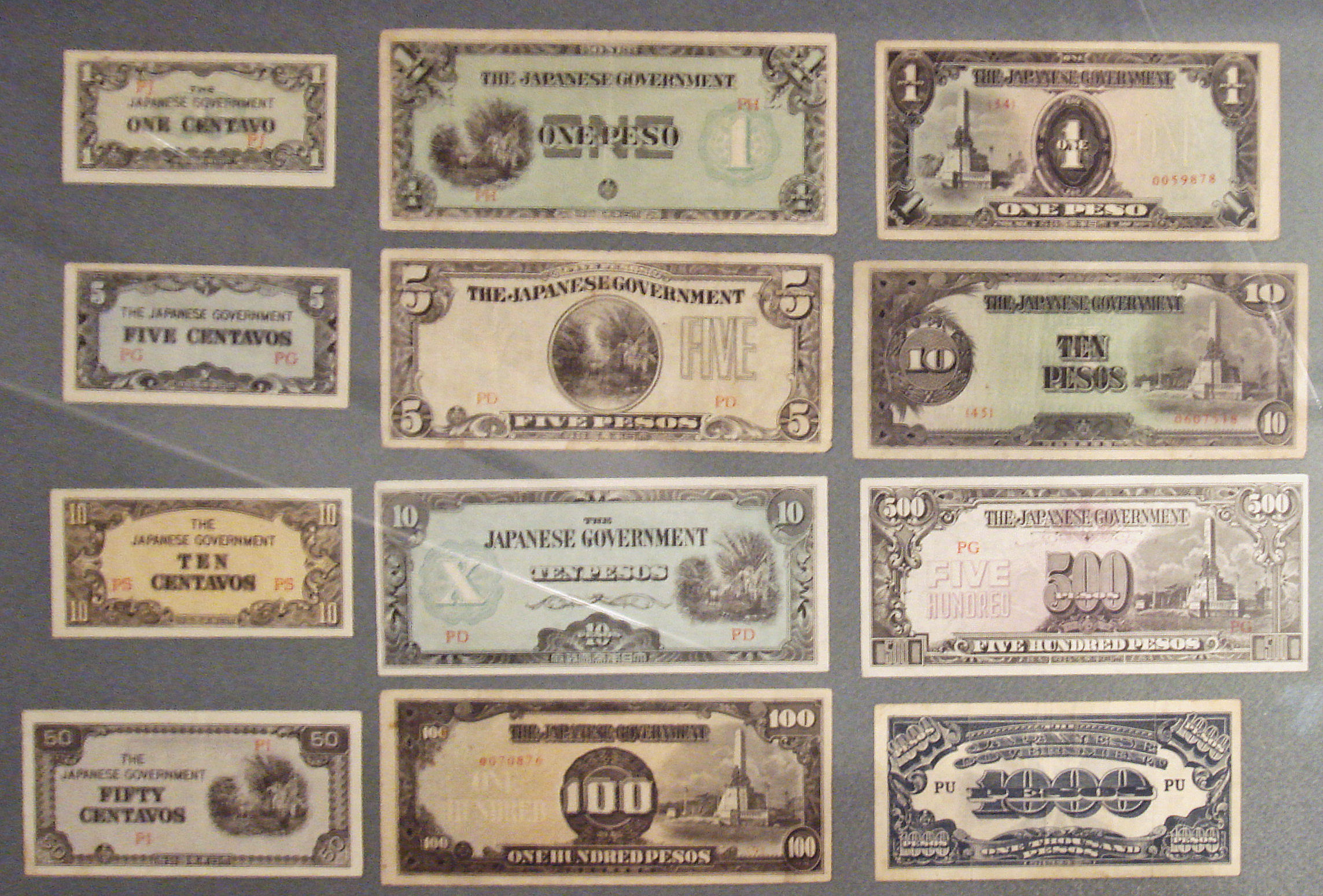 Japanese_Government_Asian_banknotes_during_the_Second_World_War.